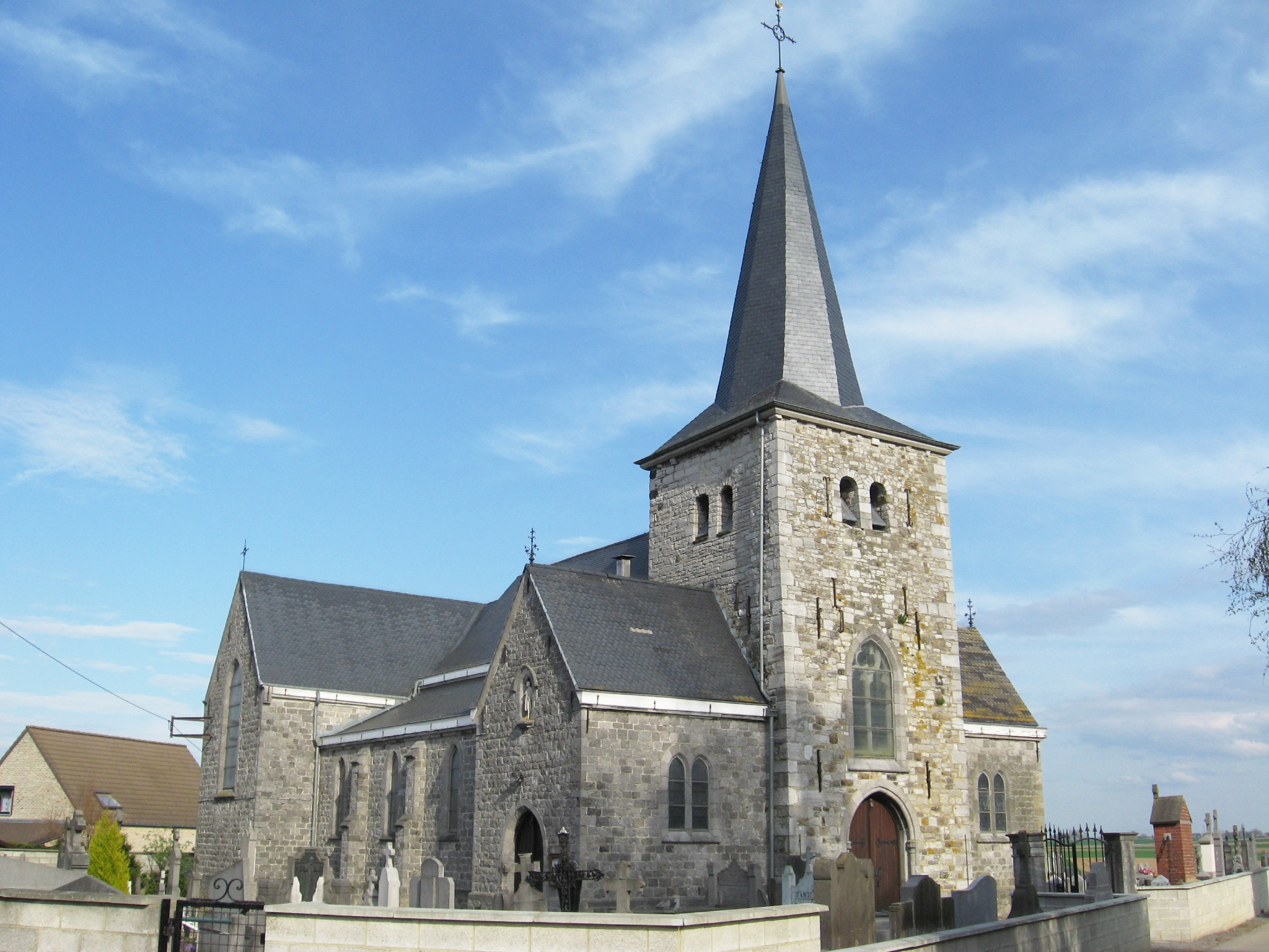 Church of Saint-Maurice in Bleret, Waremme, Liège, Belgium